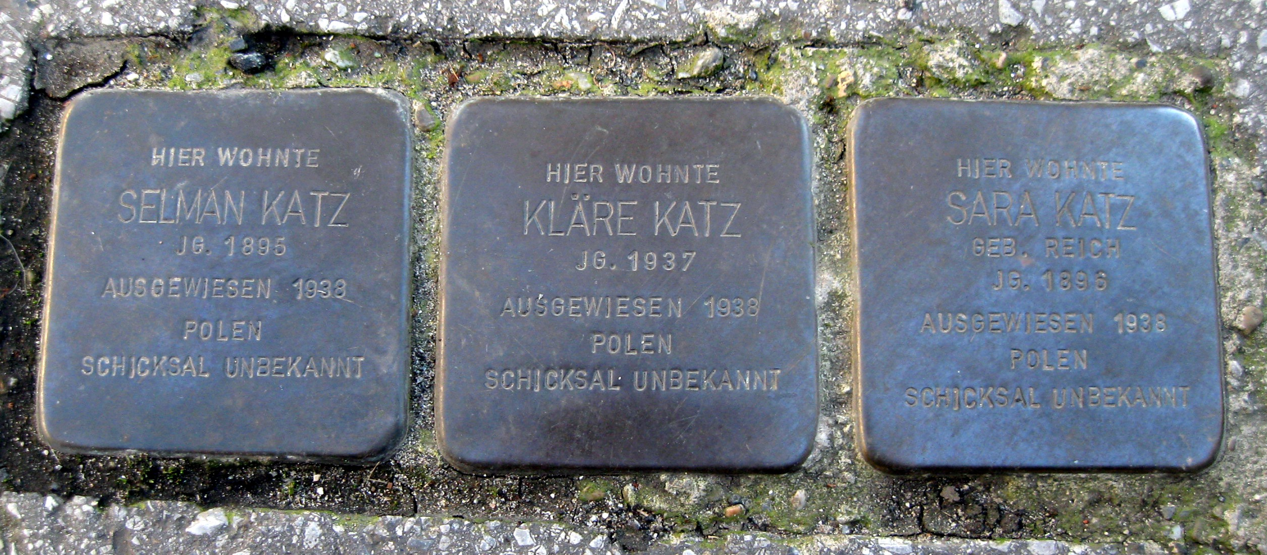 Stolpersteine at house Adlerstraße 36 in Dortmund, GermanyEsperanto: Stumbligaj ŝtonetoj ĉe domo Adlerstraße 36 en Dortmund, Germanio